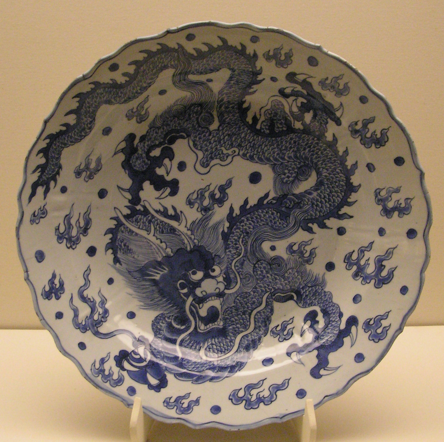 Large dish with dragon design. Blue-and-white porcelain "Transitional style", Late Ming Dynasty, around 1640. Formerly kept at Schloss Monbijou, presently at Museum für Ostasiatische Kunst, Berlin-Dahlem.